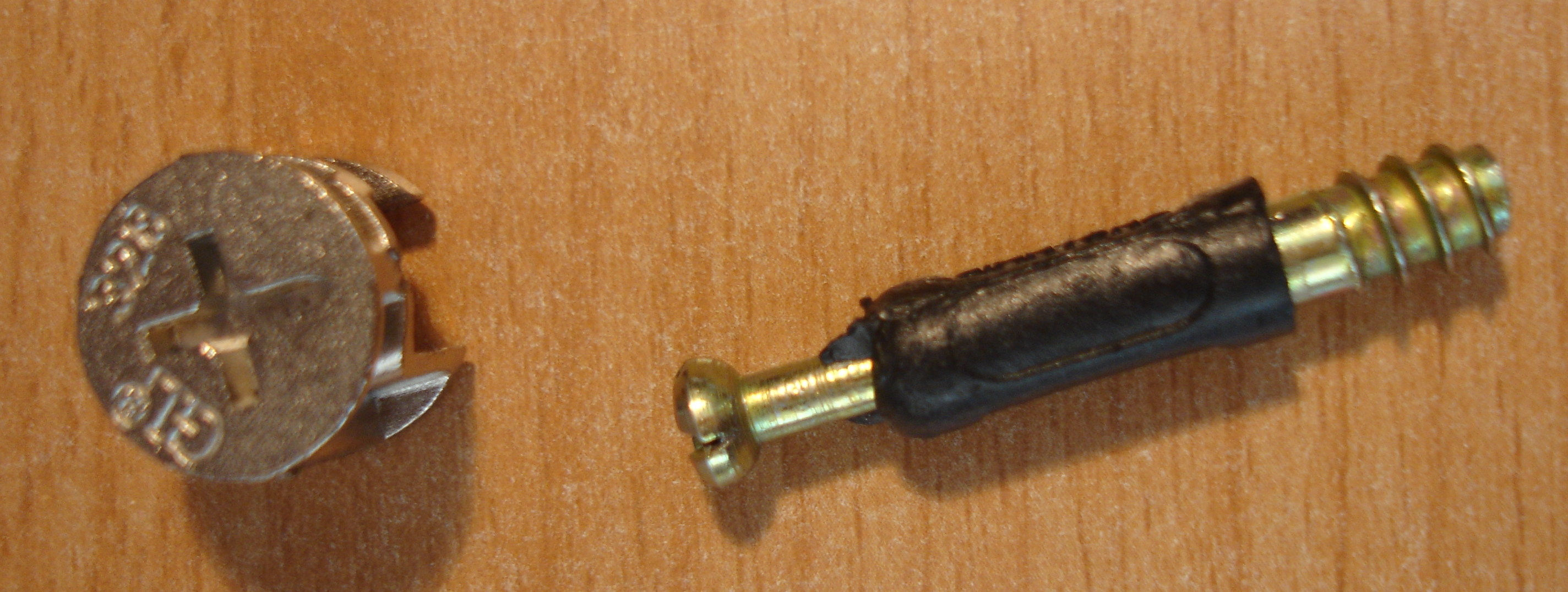 bolts for wood construction